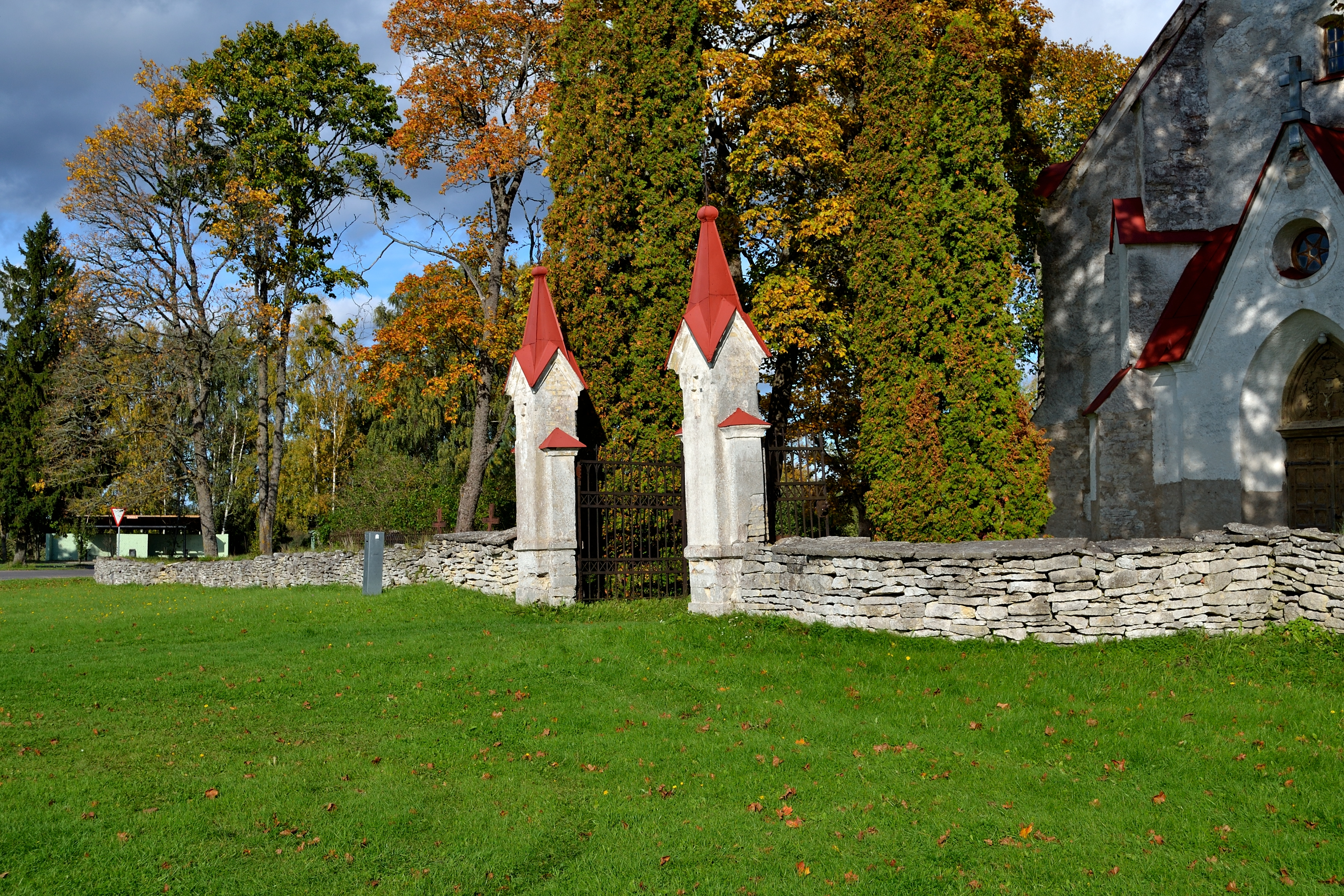 Juuru churchyard gate and wall